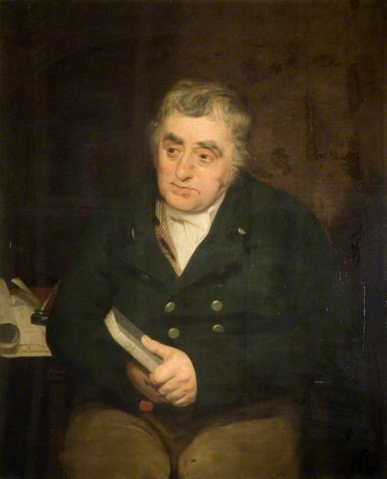 James Luckcock was born in Birmingham, England, on 24 October 1761 -this painting is in Birmingham Museums and Art Gallery; Supplied by The Public Catalogue Foundation - painted by "British School"